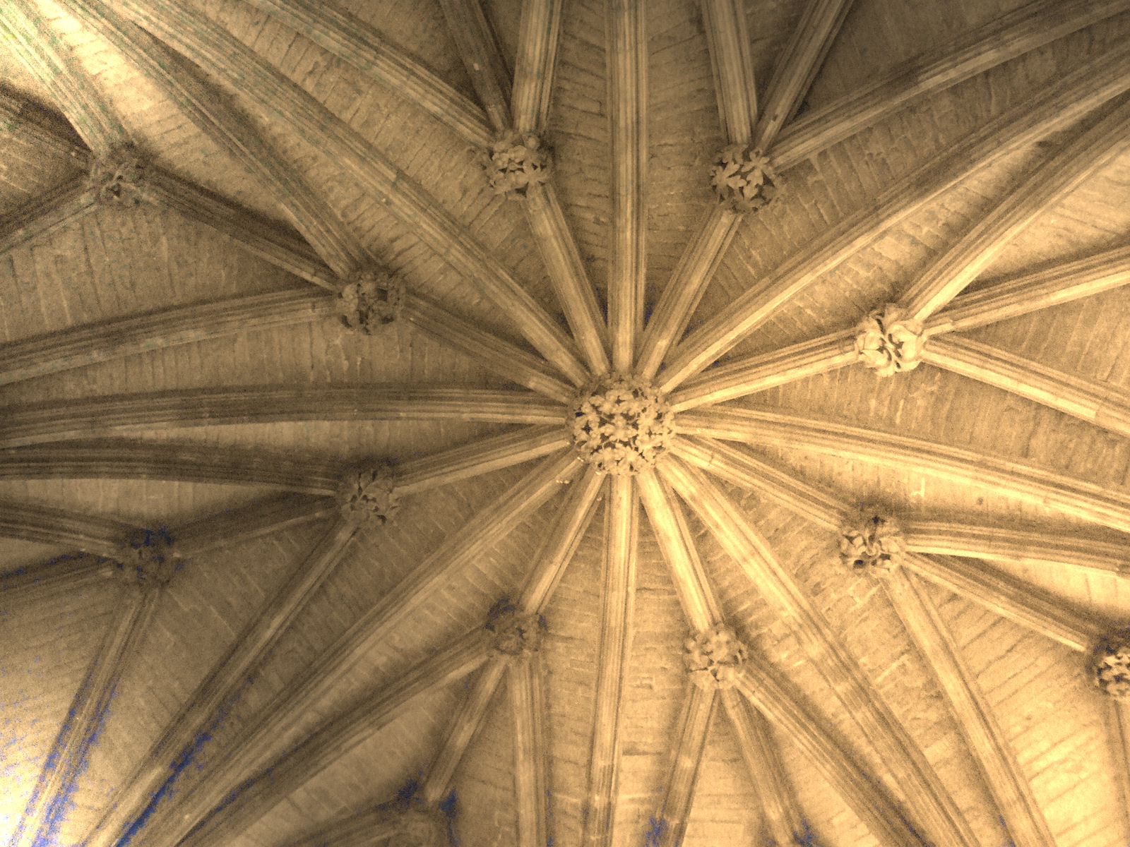 Southwell Minster, England